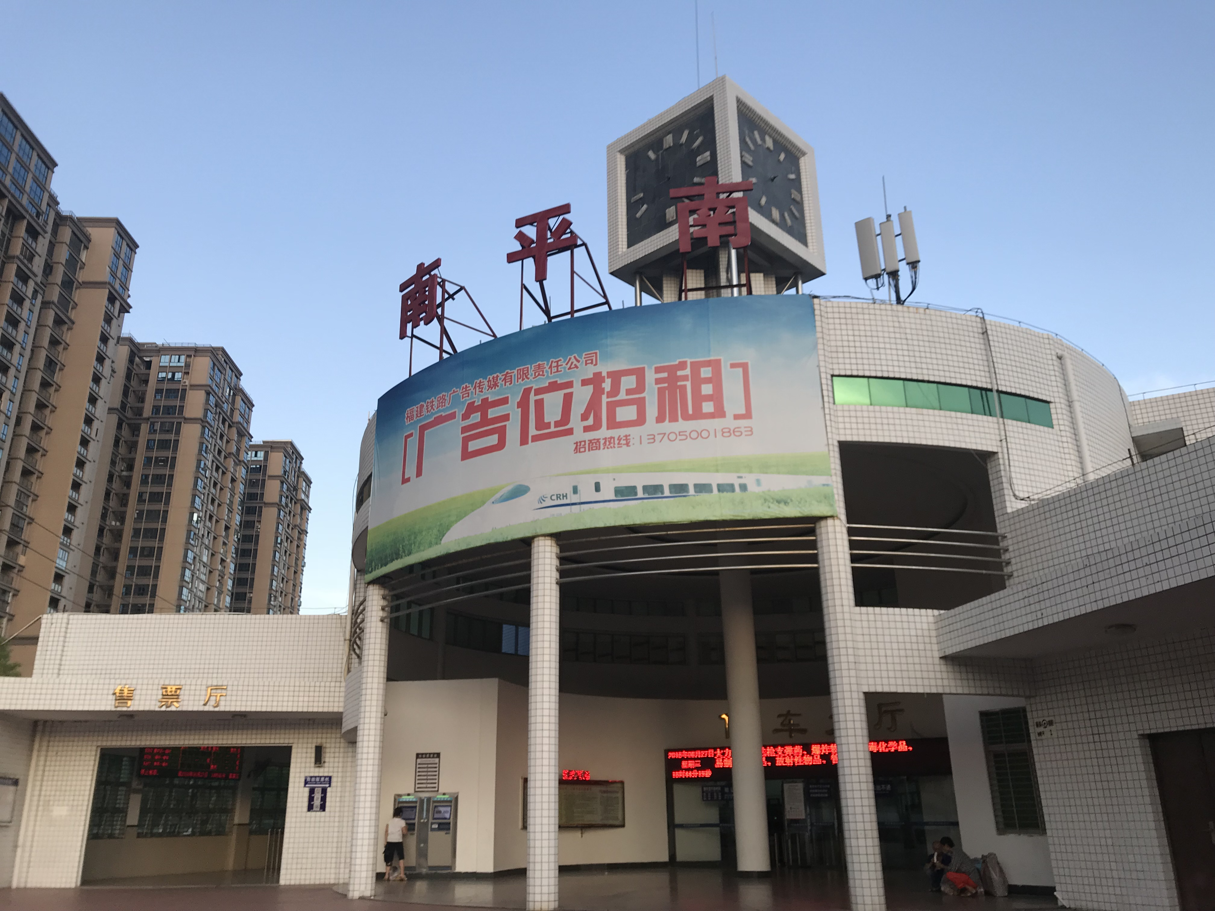 201806 Nanpingnan Station Facade